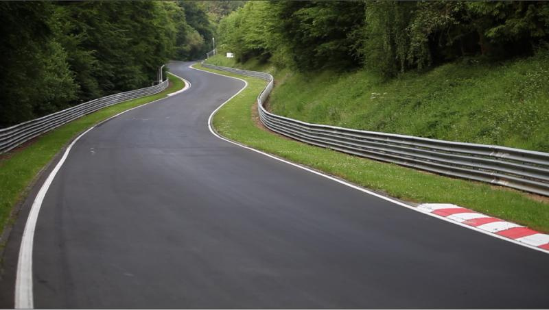 Nordschleife sector Fuchsroehre. Original description: "Germany’s Nurburgring test track - the true measure of a performance vehicle."